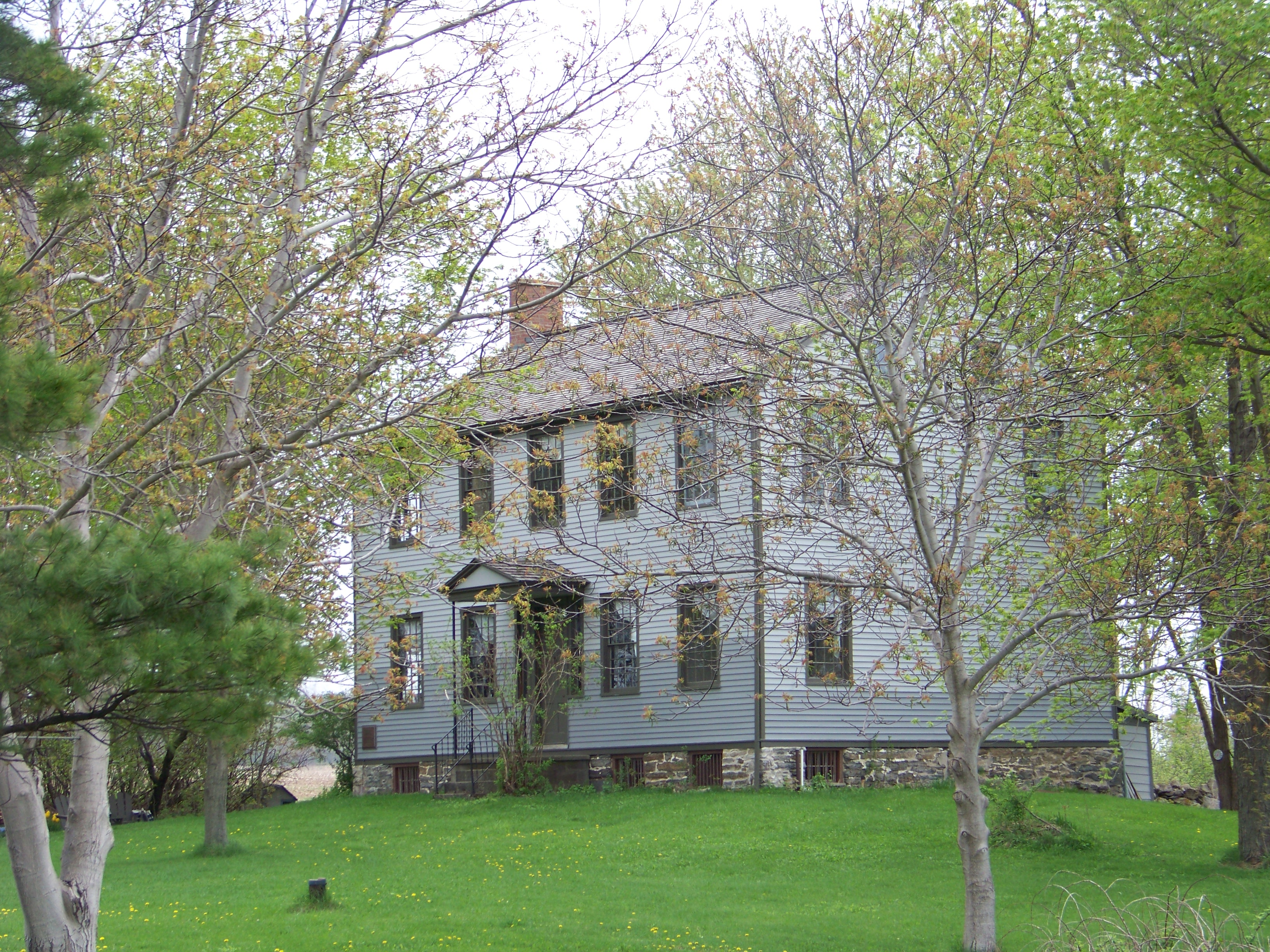 Jethro Wood House, inventor of first successful cast iron plow, Poplar Ridge, NY